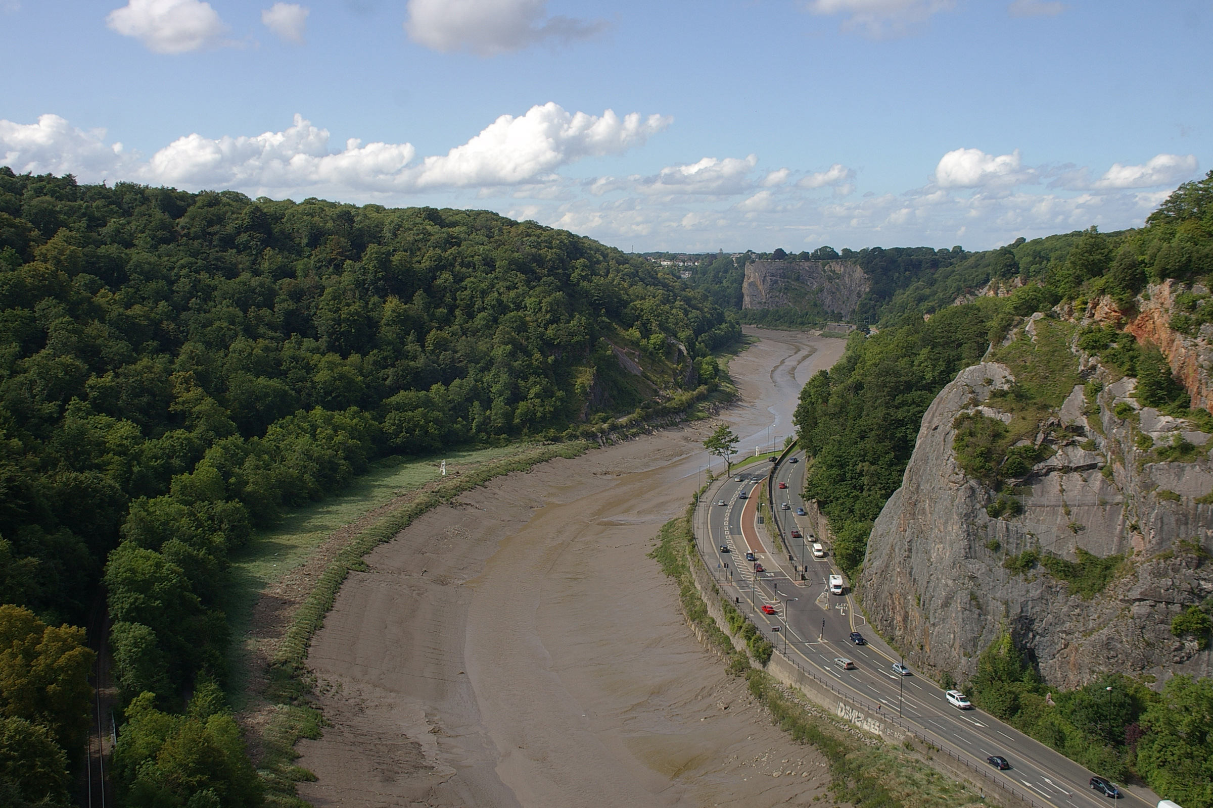 Looking towards Avonmouth from the Clifton Suspension Bridge.